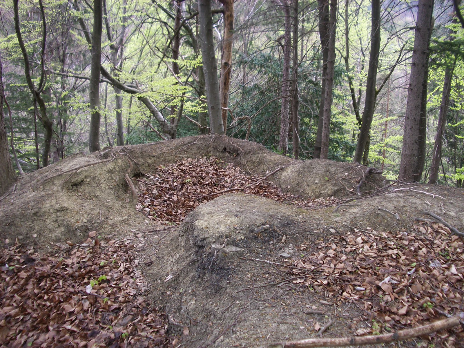 Sellenbüren ZH, Switzerland